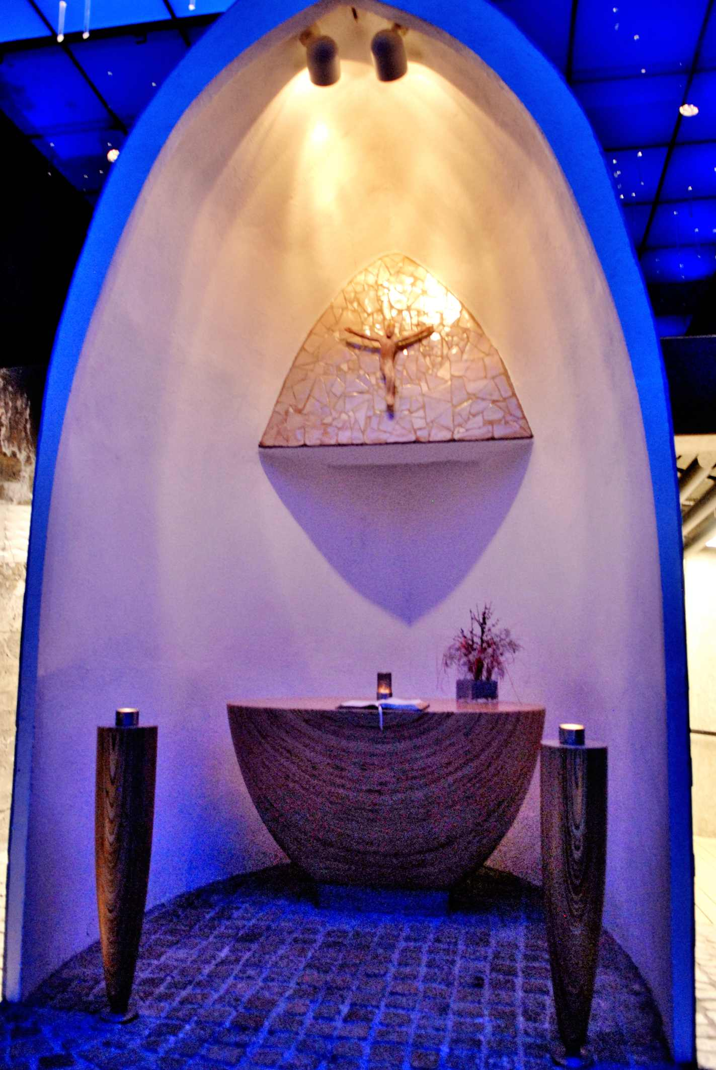 North Cape Hall: Ecumenical Chapel (Northern Norway; 71°10’16‘‘N, 25°47’1‘‘E)